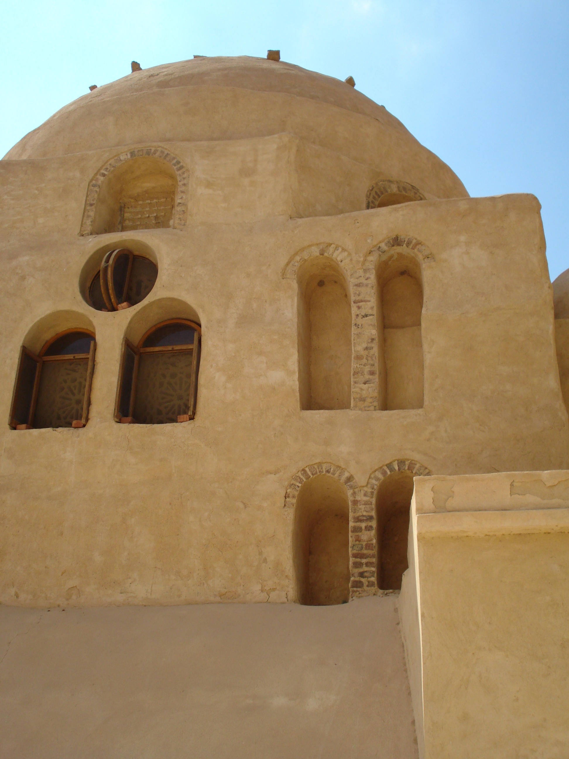 A Coptic Christian Orthodox Monastery in Lower Egypt